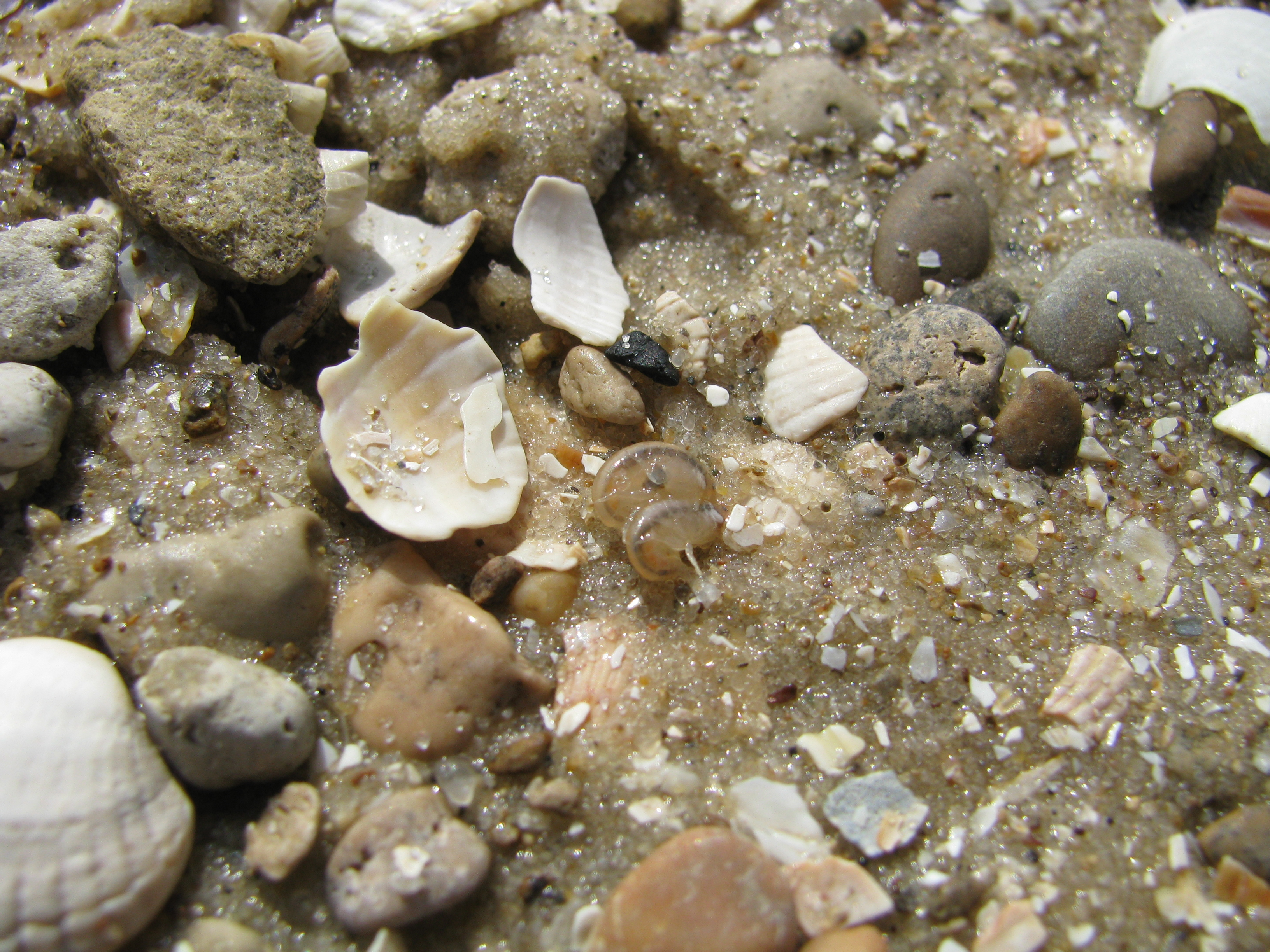 Gammarus on the coast of Azov sea